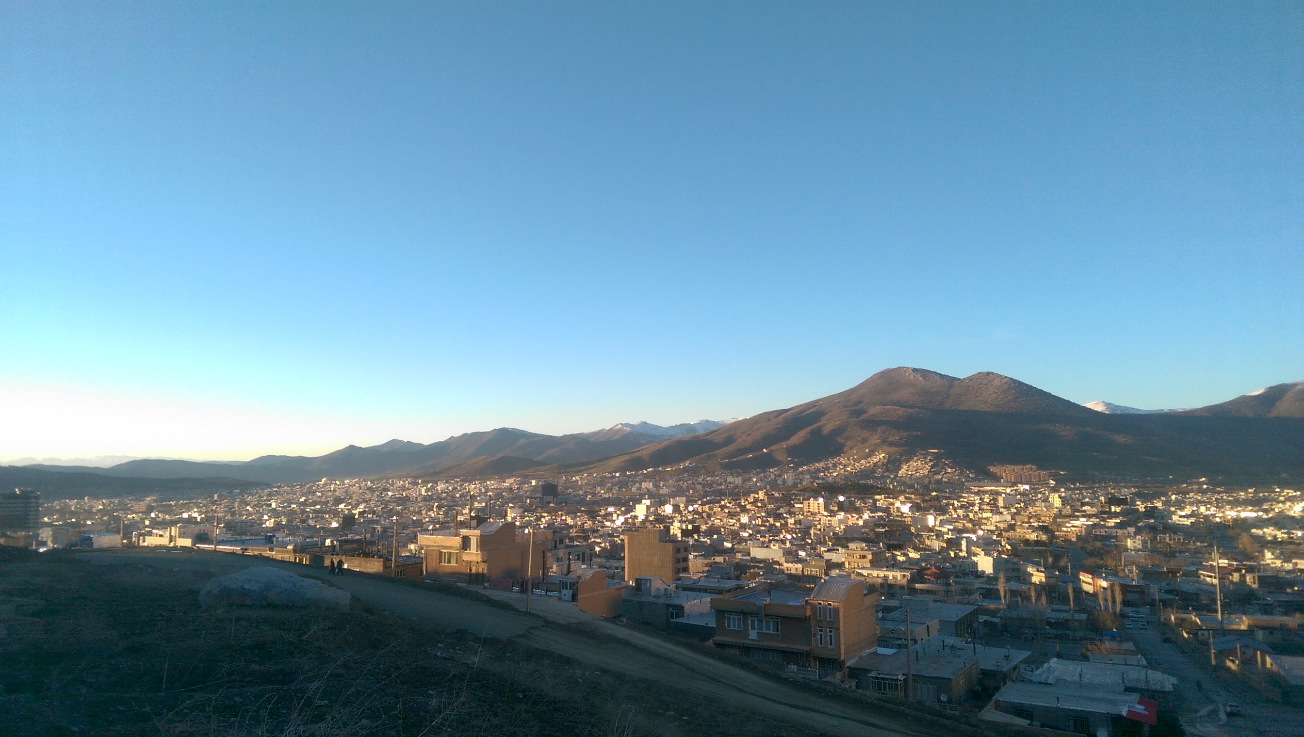 Baneh in Daylight